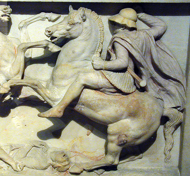 Thessalian (?) cavalryman on the Alexander Sarcophagus (Istanbul Archaeological Museum). Photograph taken by Marsyas on 06/09/2000.